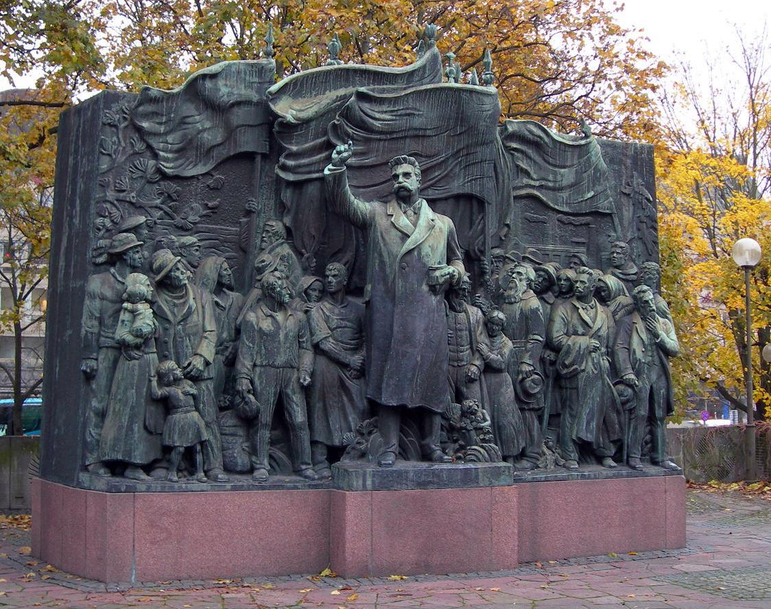 The Branting Monument